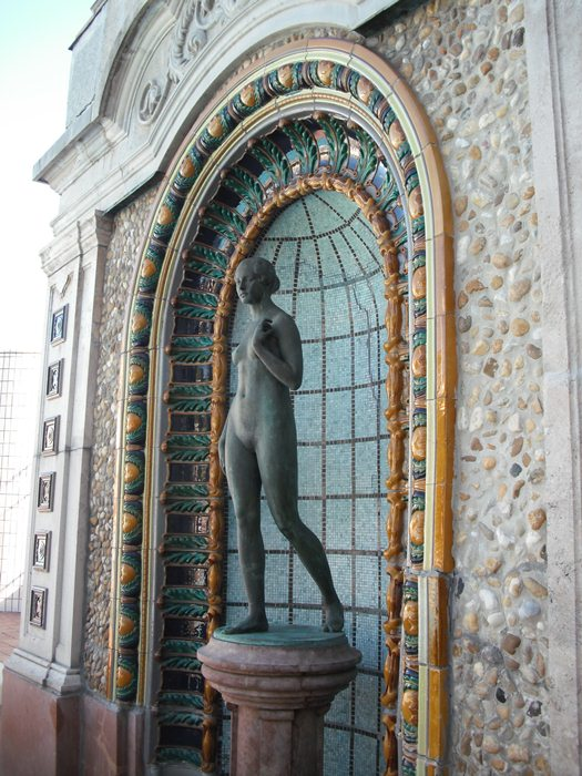 Statue in the garden of Gellért baths